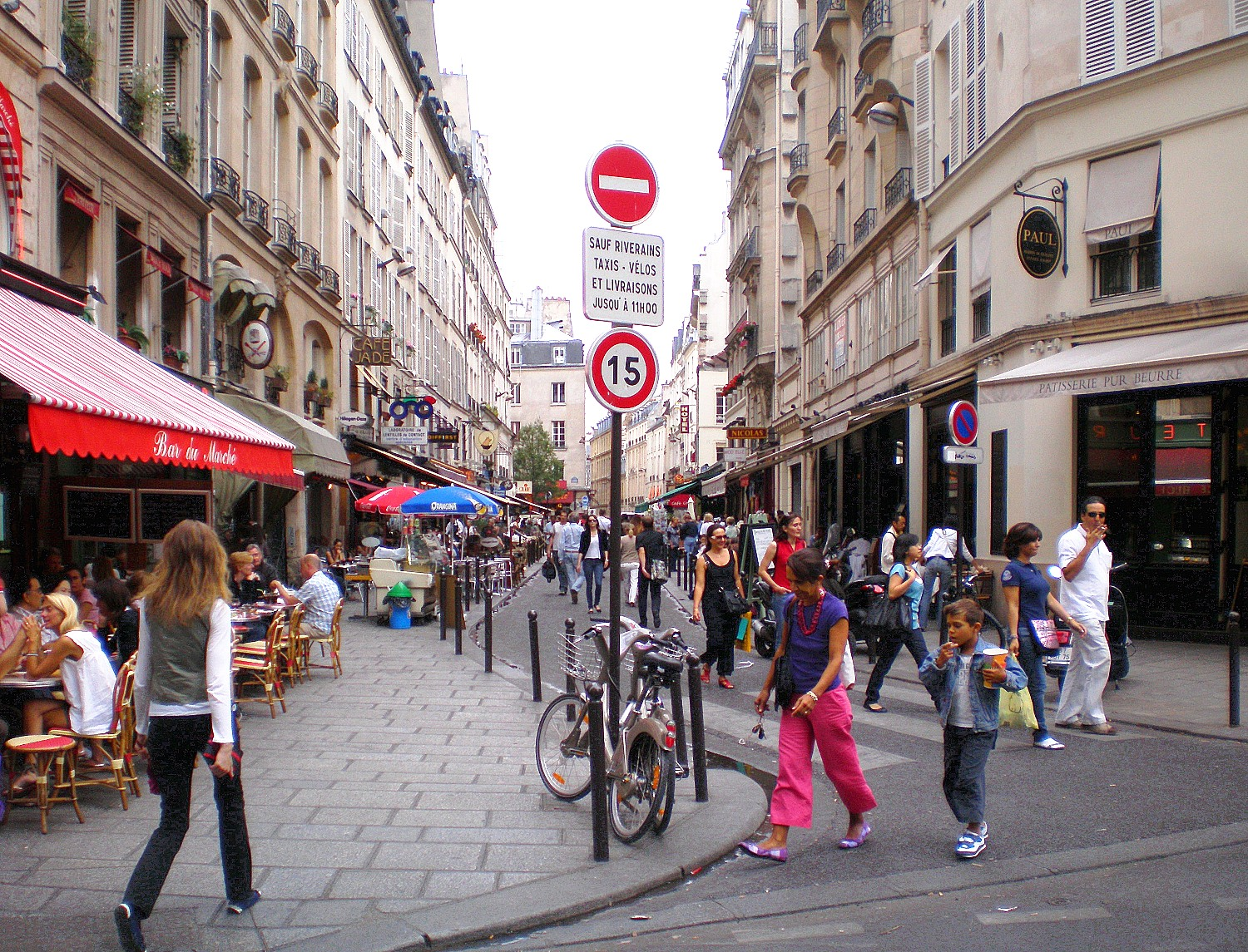 Buci street - Paris